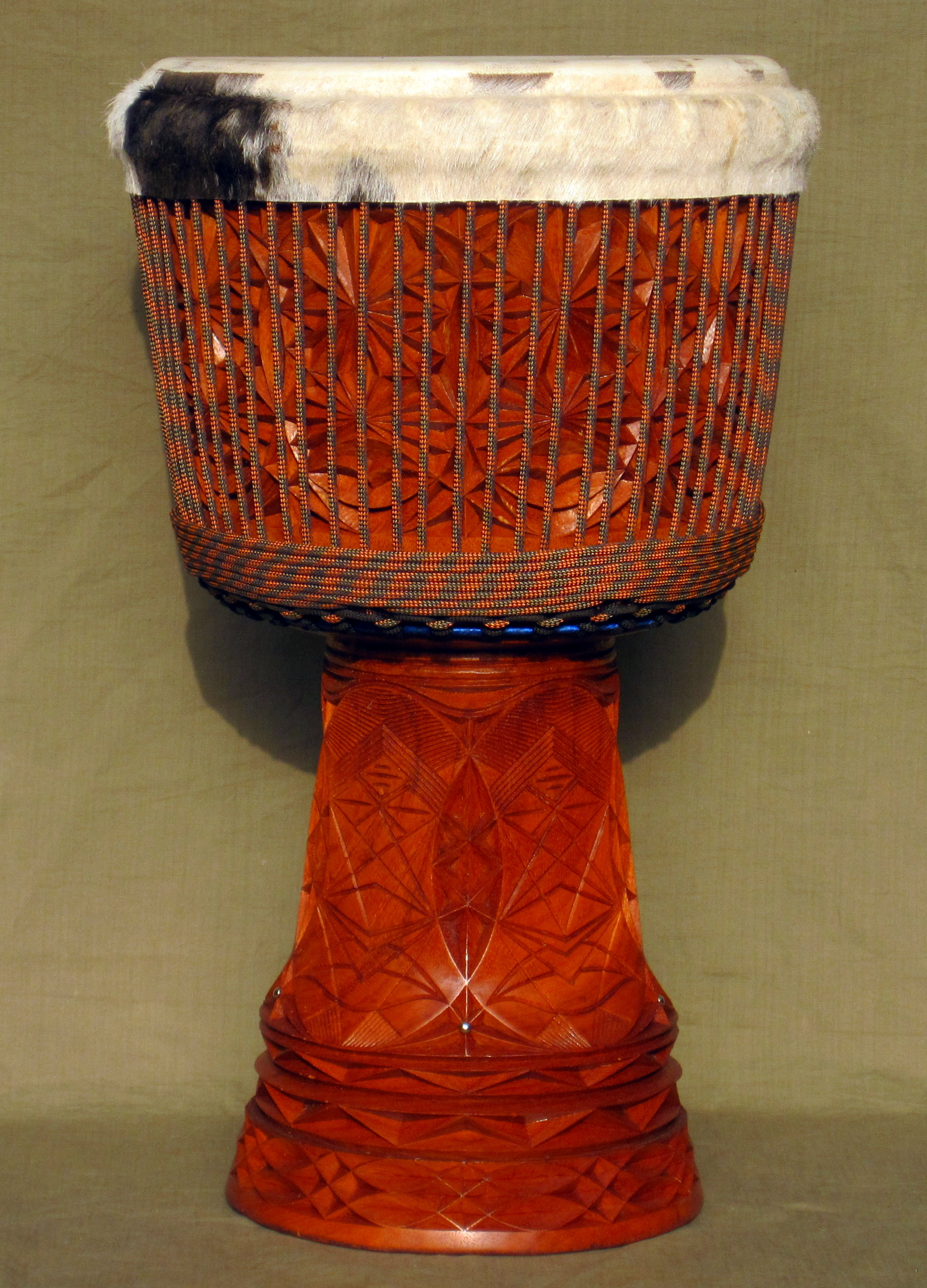 Djembe with rich carvings on the bowl and stem. This style became popular in the 2000s; previously, the bowl was left plain and only the stem was decorated. Uploaded with kind permission from Tom Kondas, founder of Wula Drum in New York.